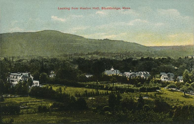 Looking from Heaton Hall, Stockbridge, MA